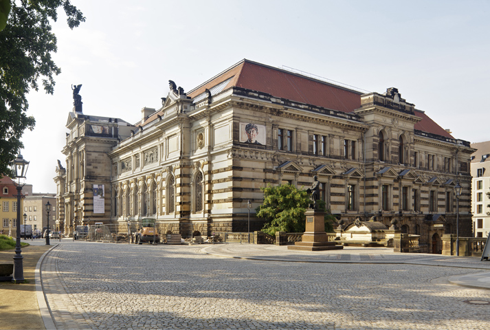 The Albertinum in Dresden; view from Brühlsche Terrasse